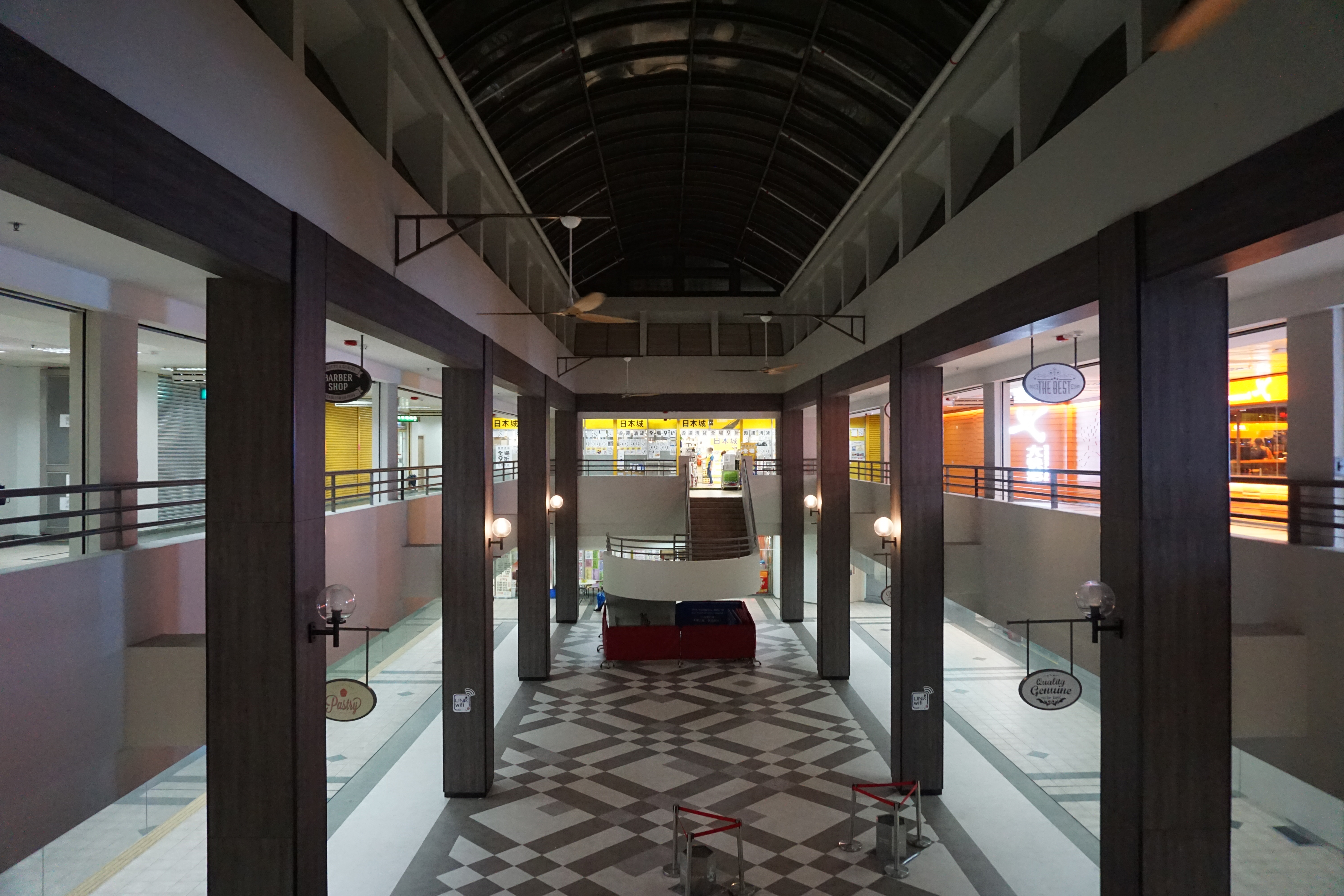 Lung Hang Shopping Centre in Tai Wai, Hong Kong.